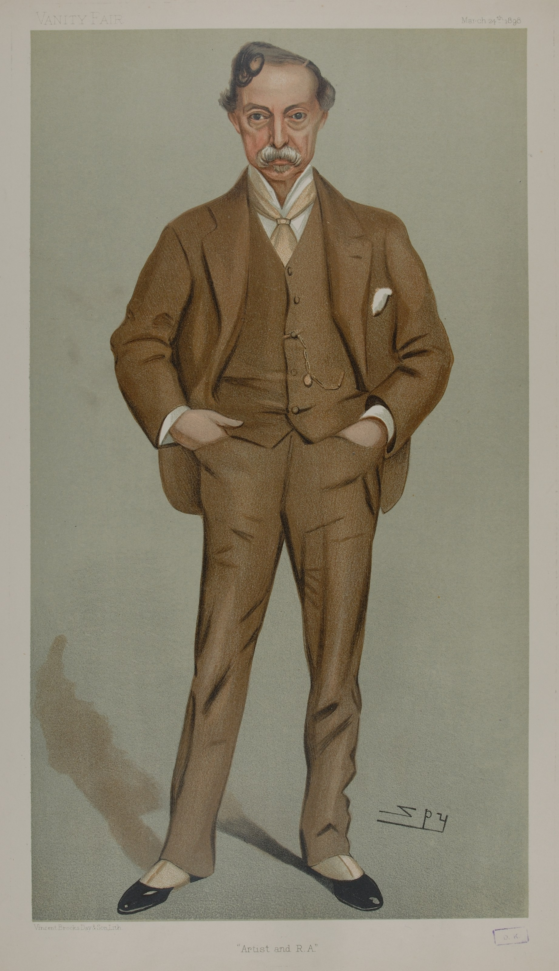 Men of the Day No. 709: Caricature of Mr. William Quiller Orchardson, R.A. (1832-1910). Caption read "Artist and RA".